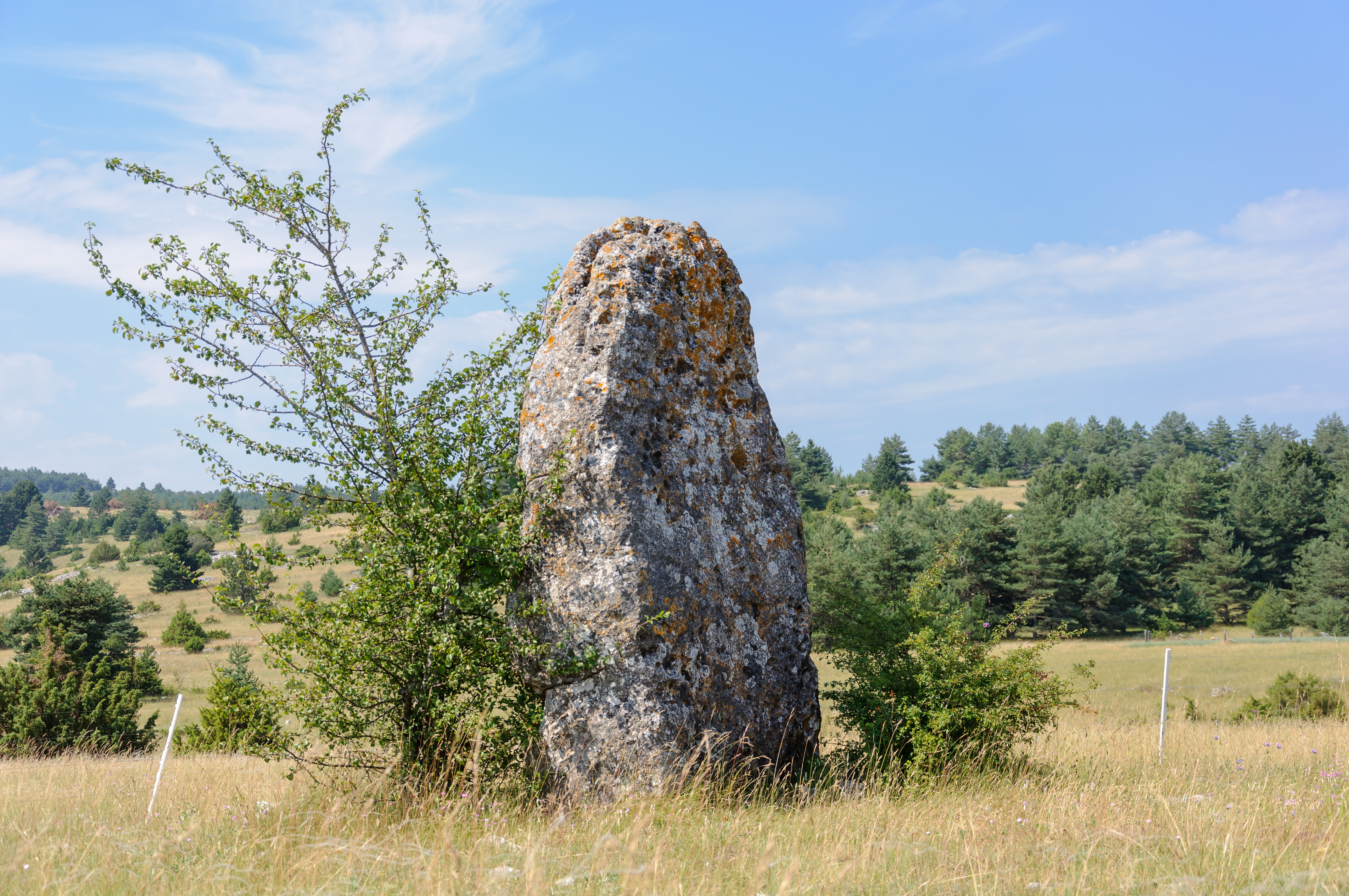 Fraïsse menhir[1] on Causse Méjean (Mas-Saint-Chély, Lozère, France). One can discern carved cup marks .